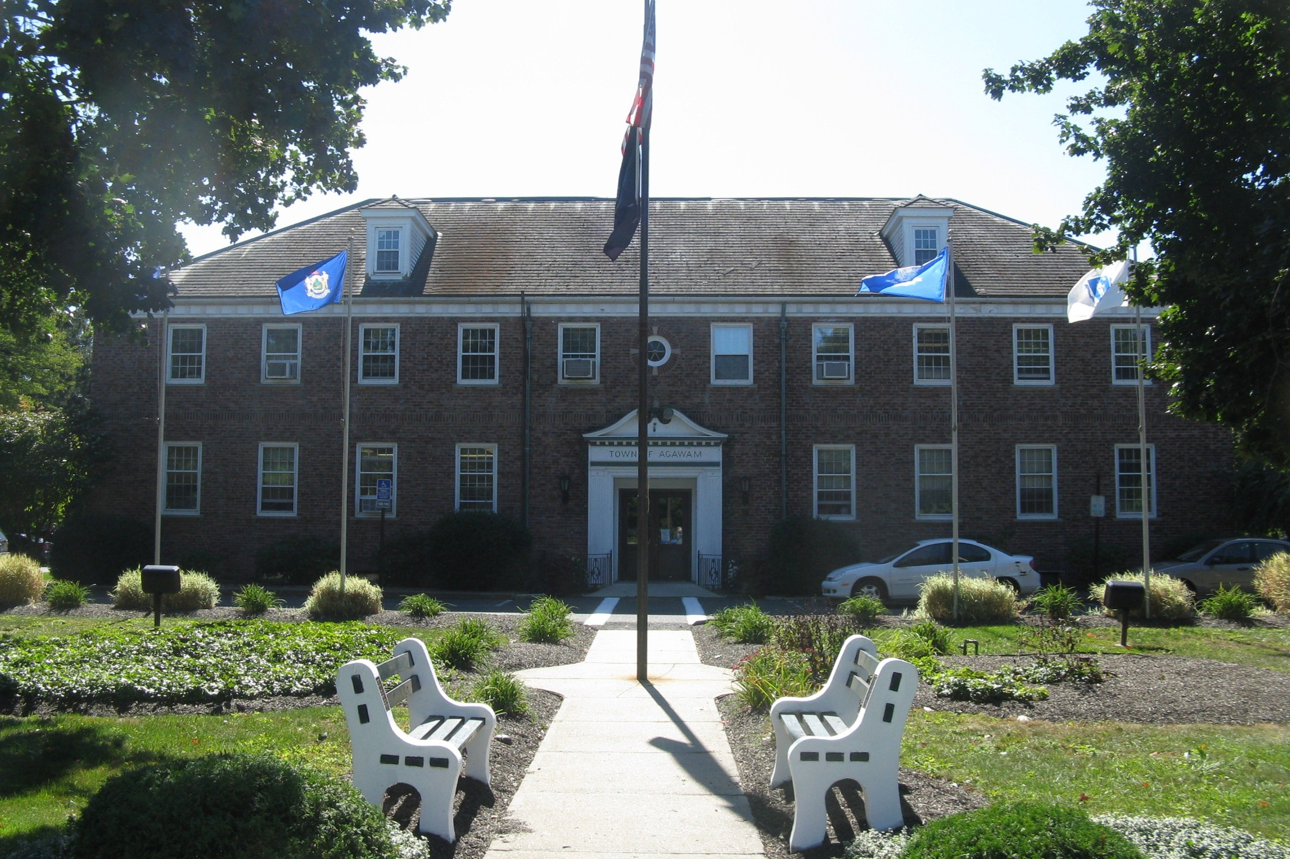 Agawam Town Hall, Agawam Massachusetts